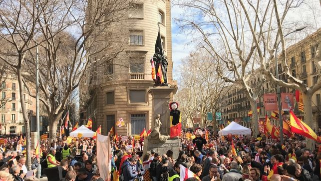 Tabarnia movement concentration on 4 March 2018 against the separation of Catalonia from Spain